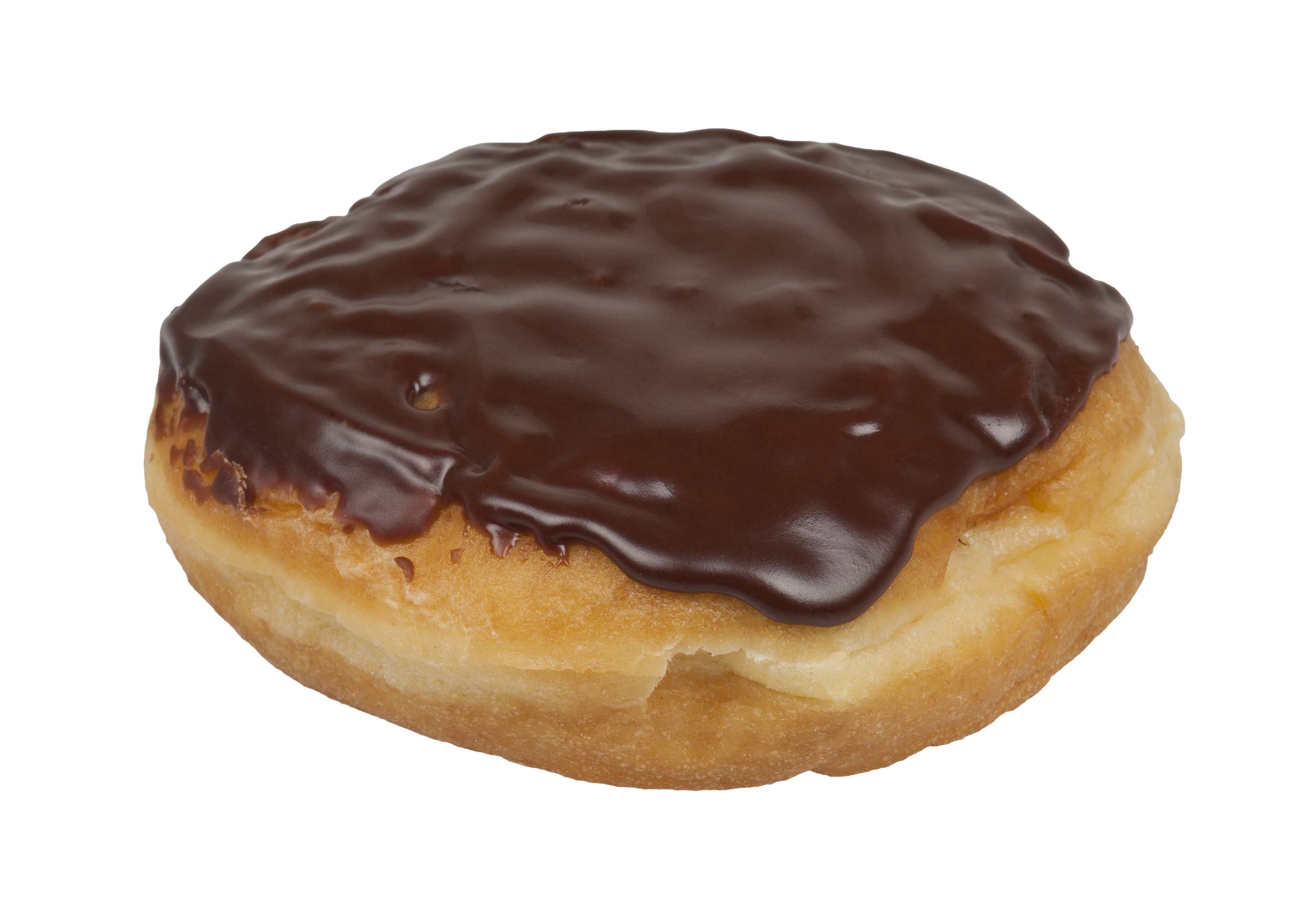 A Boston Cream donut from Dunkin' Donuts.